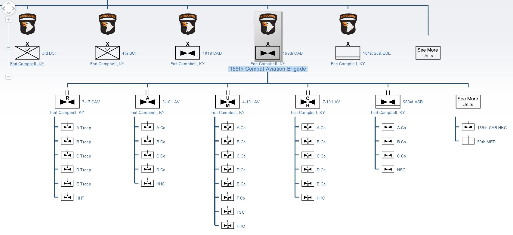 Organization structure of 159th Combat Aviation Brigade (159th CAB), 101st Airborne Division (Air Assault)